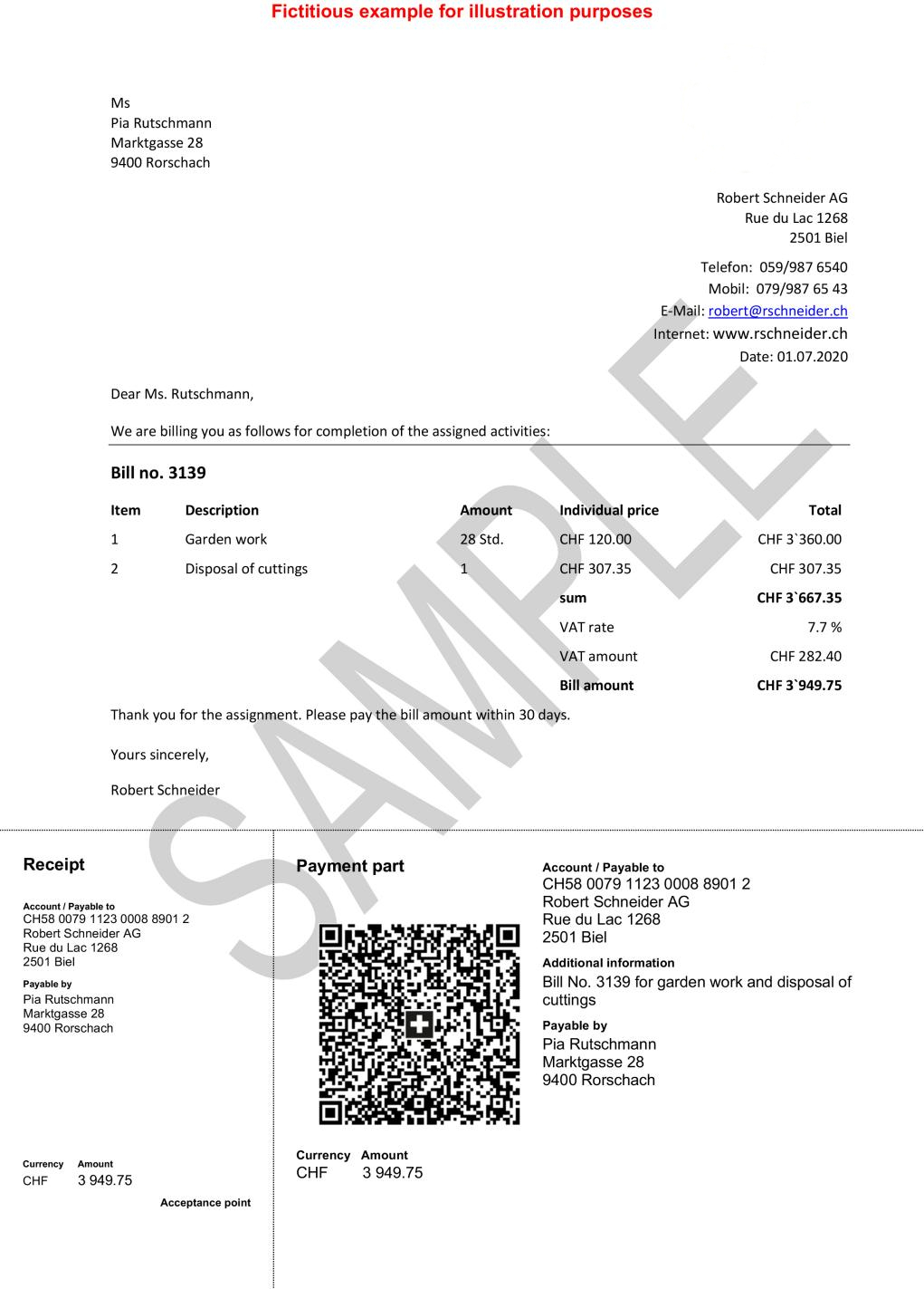 Swiss QR-Bill